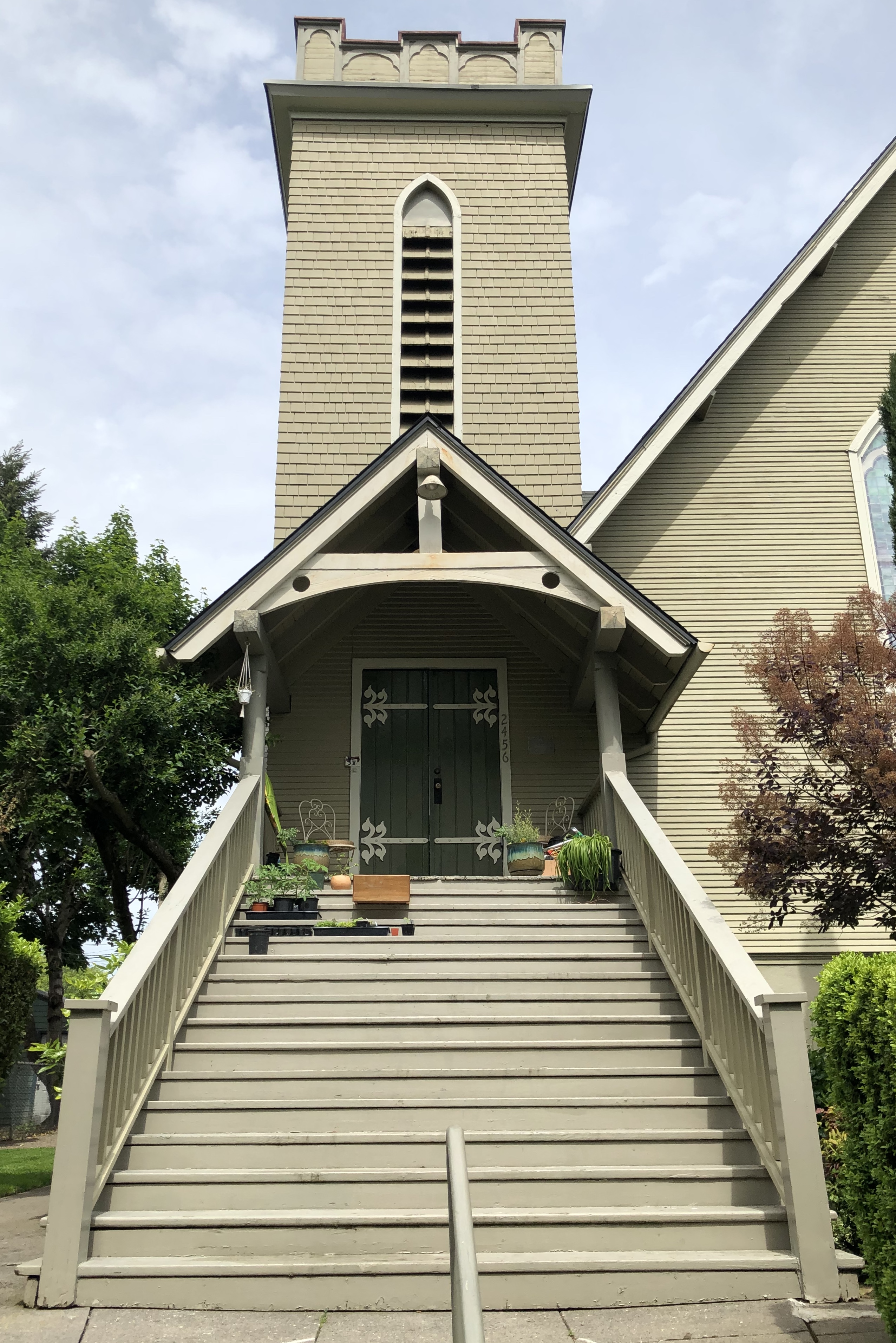 The main entryway to the Mizpah Presbyterian Church displaying the additional steps added after its relocation.